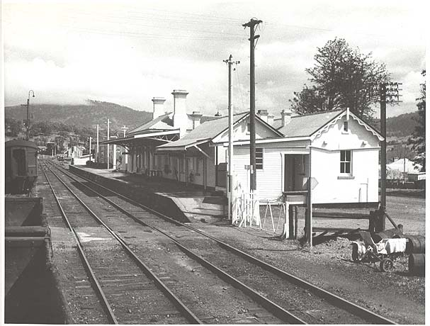 Murrurundi Railway Station Dated: by 31/12/1962 Digital ID: 17420_a014_a014000857 Rights: No known copyright restrictions We'd love to hear from you if you use our photos. Many other photos in our collection are available to view and browse on our website using Photo Investigator.